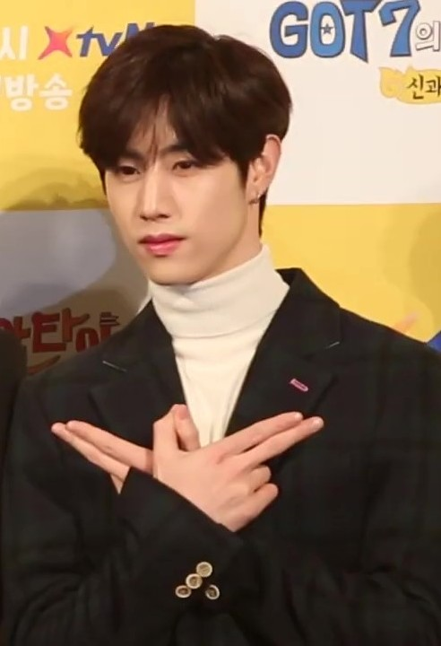 Got7 at "Got7's Real Thai" press conference, 7 January 2019